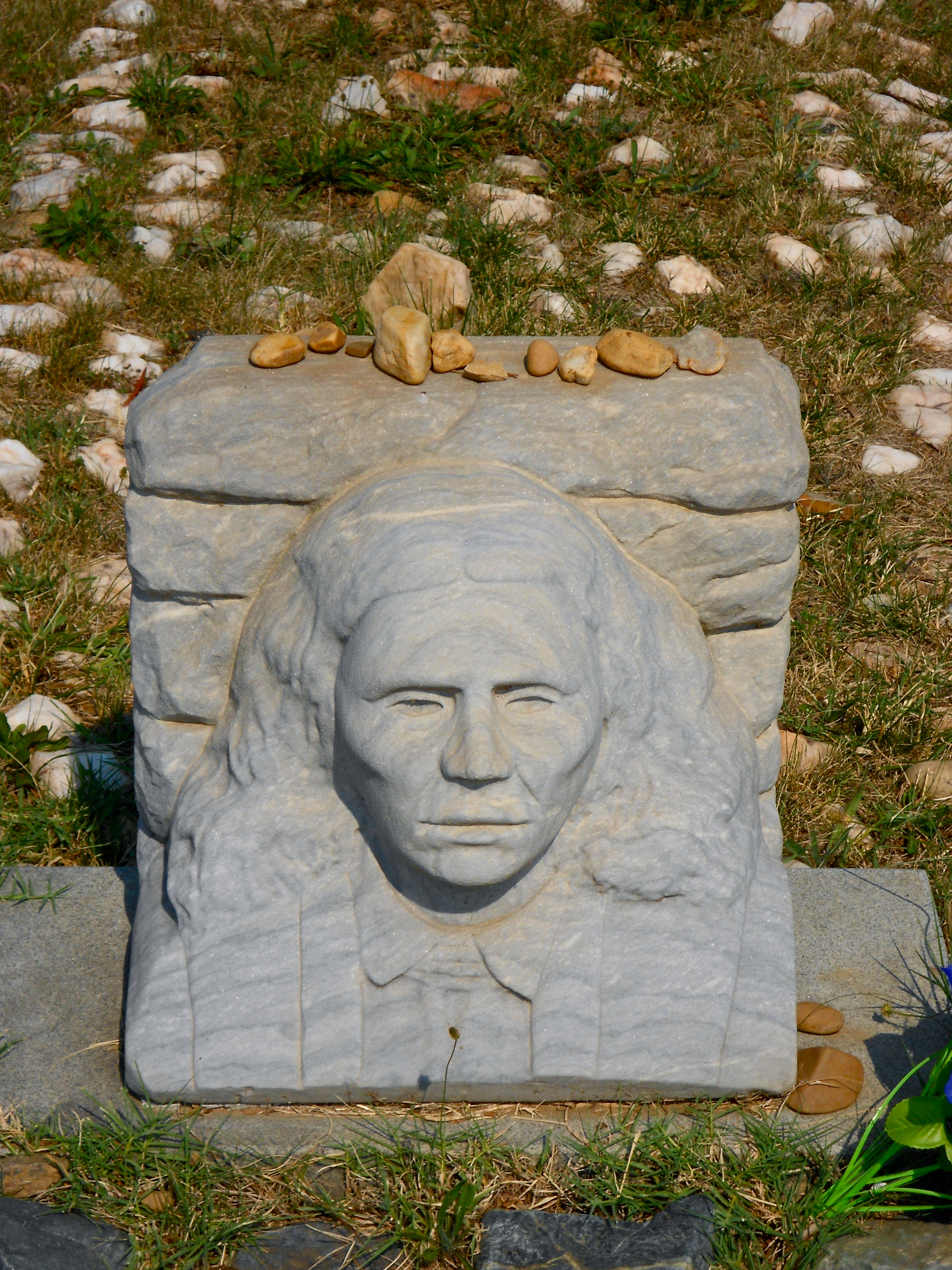 Grave of Chief Taza (Apache) at the Congressional Cemetery in Washington, DC. The Cemetery is a National Historic Landmark